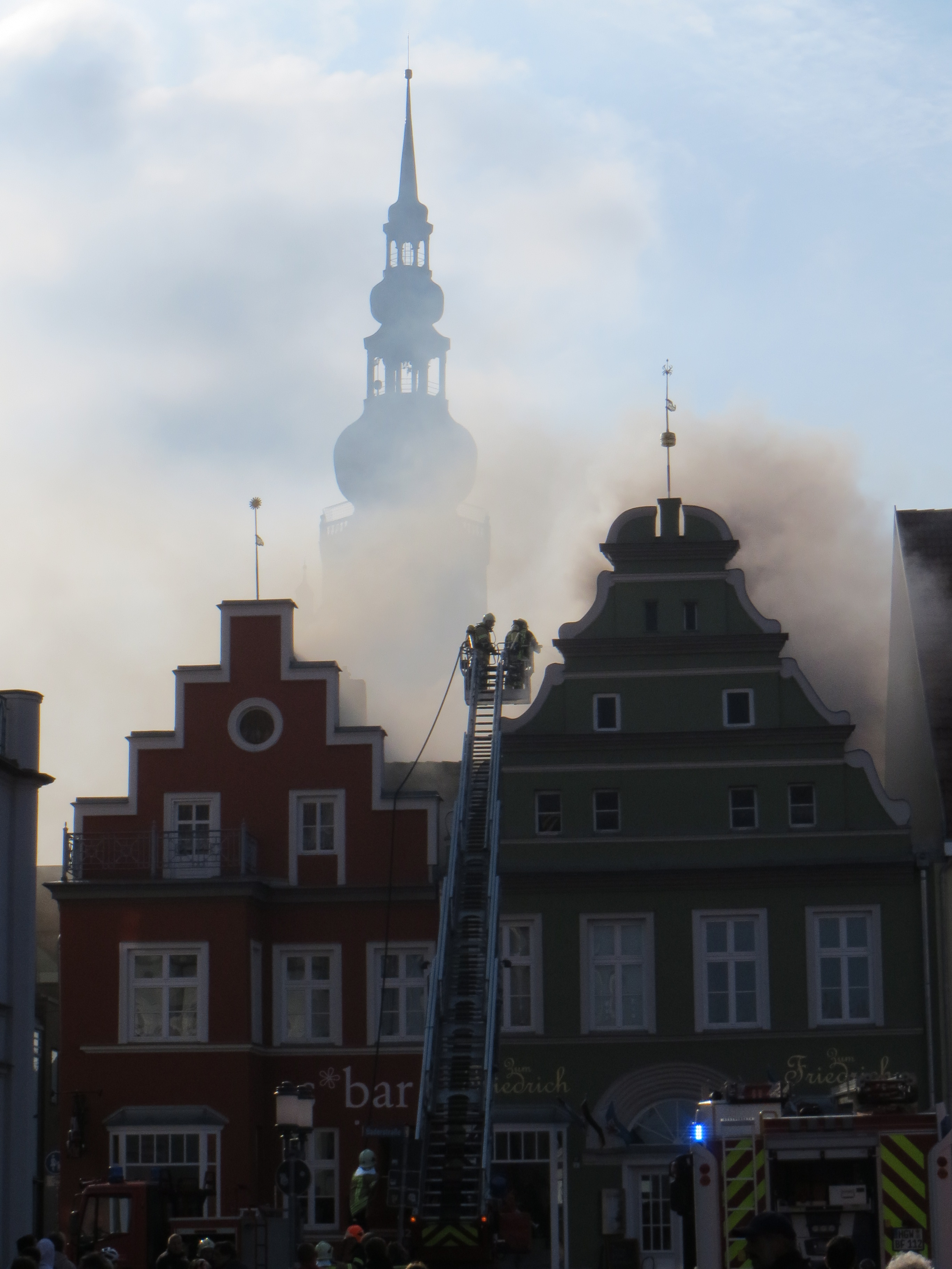 Fire HGW Markt 27 April 4 2014